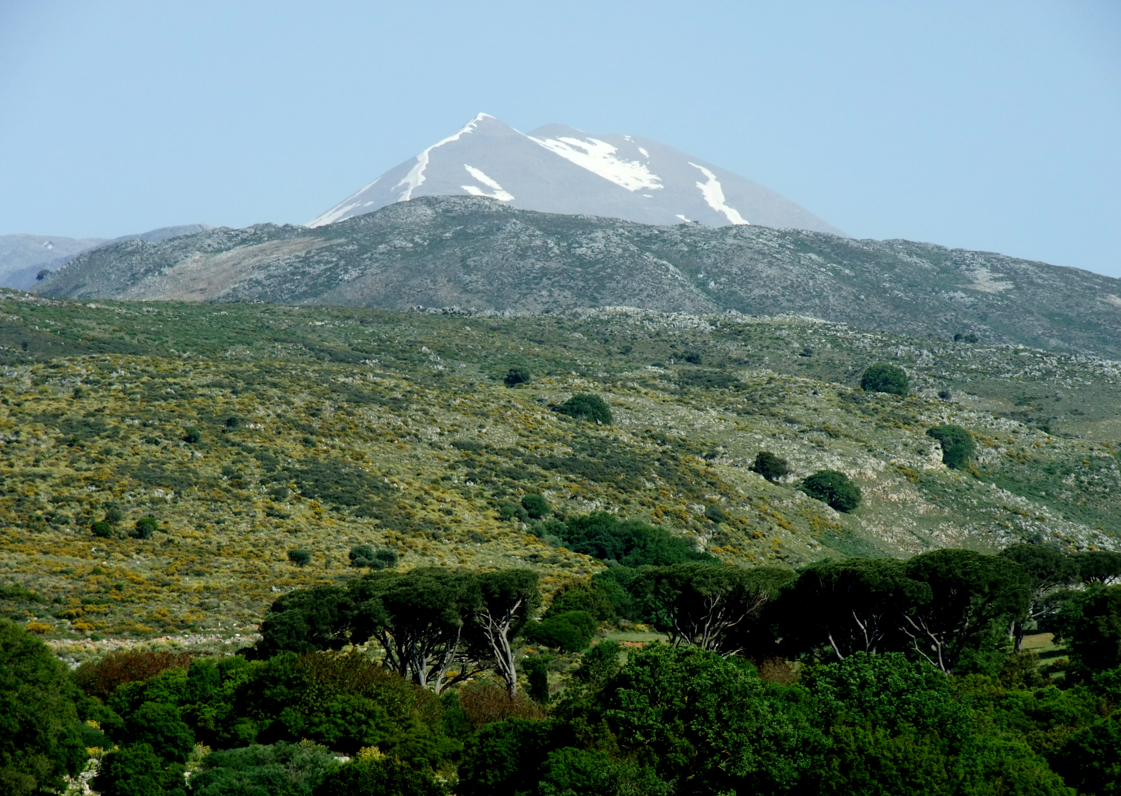 Psiloritis Mountain (2456 m) in Crete, Greece; view from the north.